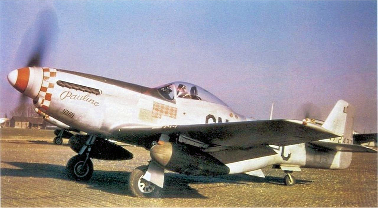 Lt. Col. Joseph L Thury. [St. Paul MN]. 505th Fighter Squadron, 339th Fighter Group, 8th AF. North American P-51D Mustang 44-72437 6N-C "Pauline".